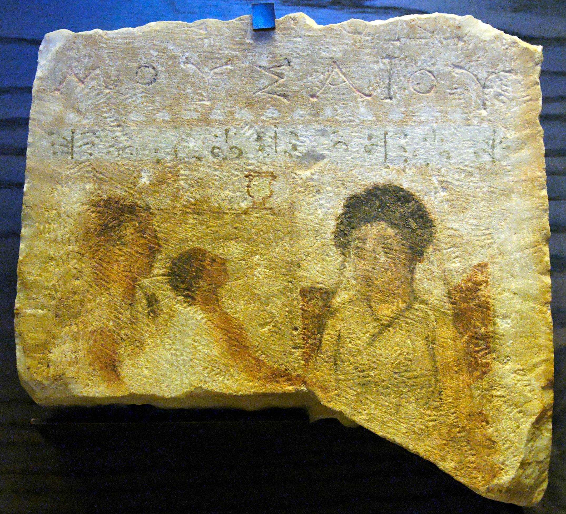 Family scene with inscription “[daughter of] Mousaios”, funerary stele.